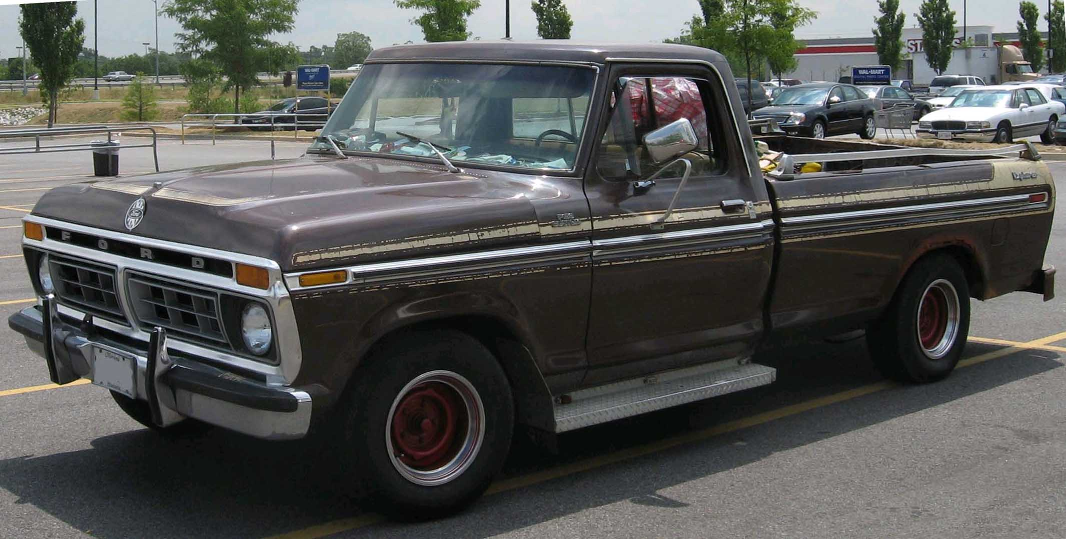 1973-1977 Ford F-150 photographed in USA.